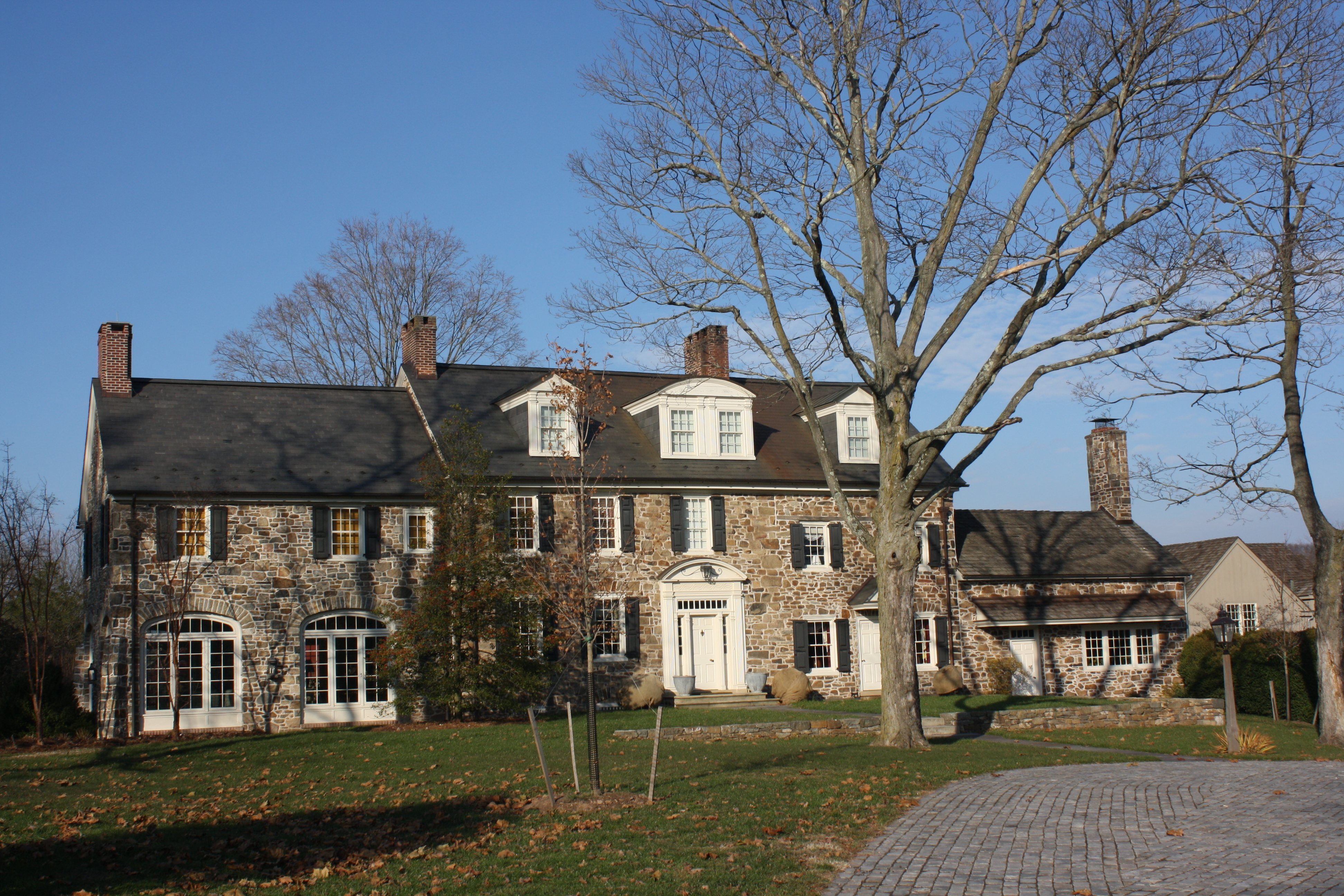 London Purchase Farm, also known as the John Chapman House, is located on Eagle Road in Upper Makefield Township, Pennsylvania. Farm House. Object location40° 18′ 46″ N, 74° 56′ 57″ W